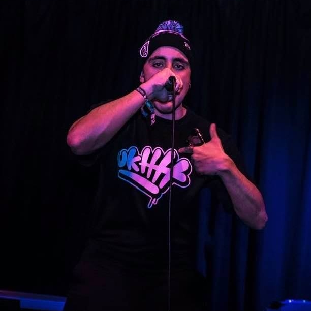 Live performance snap of DanimaL in Sheffield.